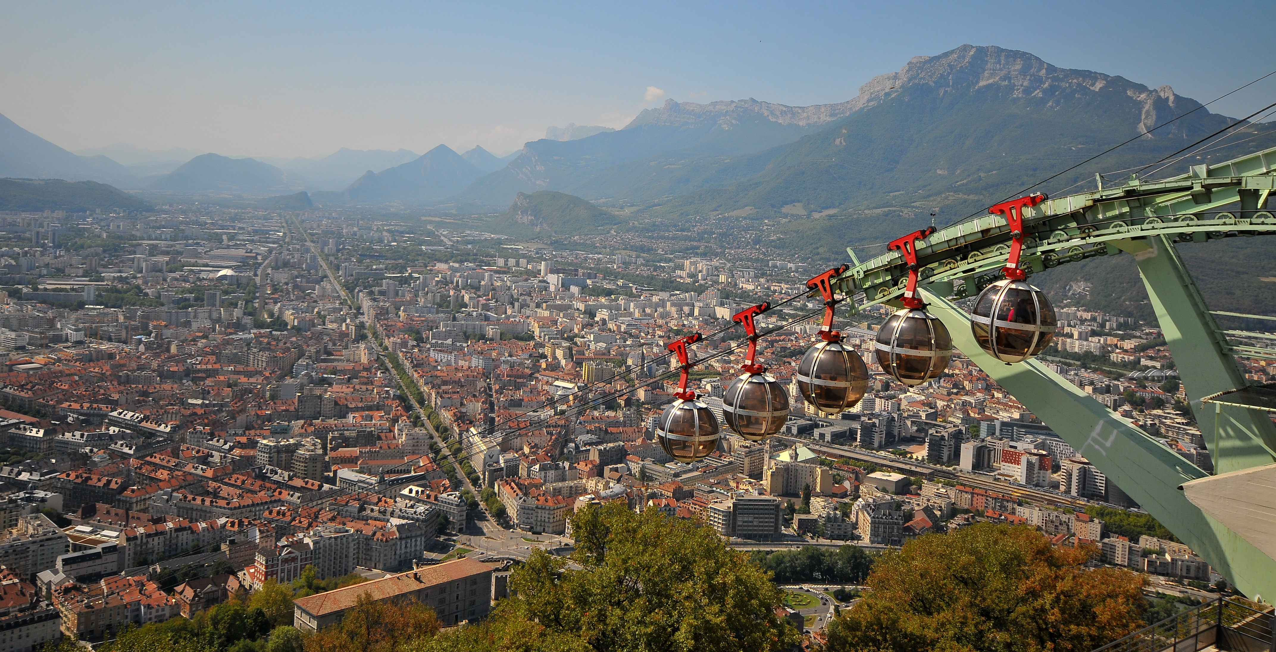 Les oeufs de Grenoble looking down on the city